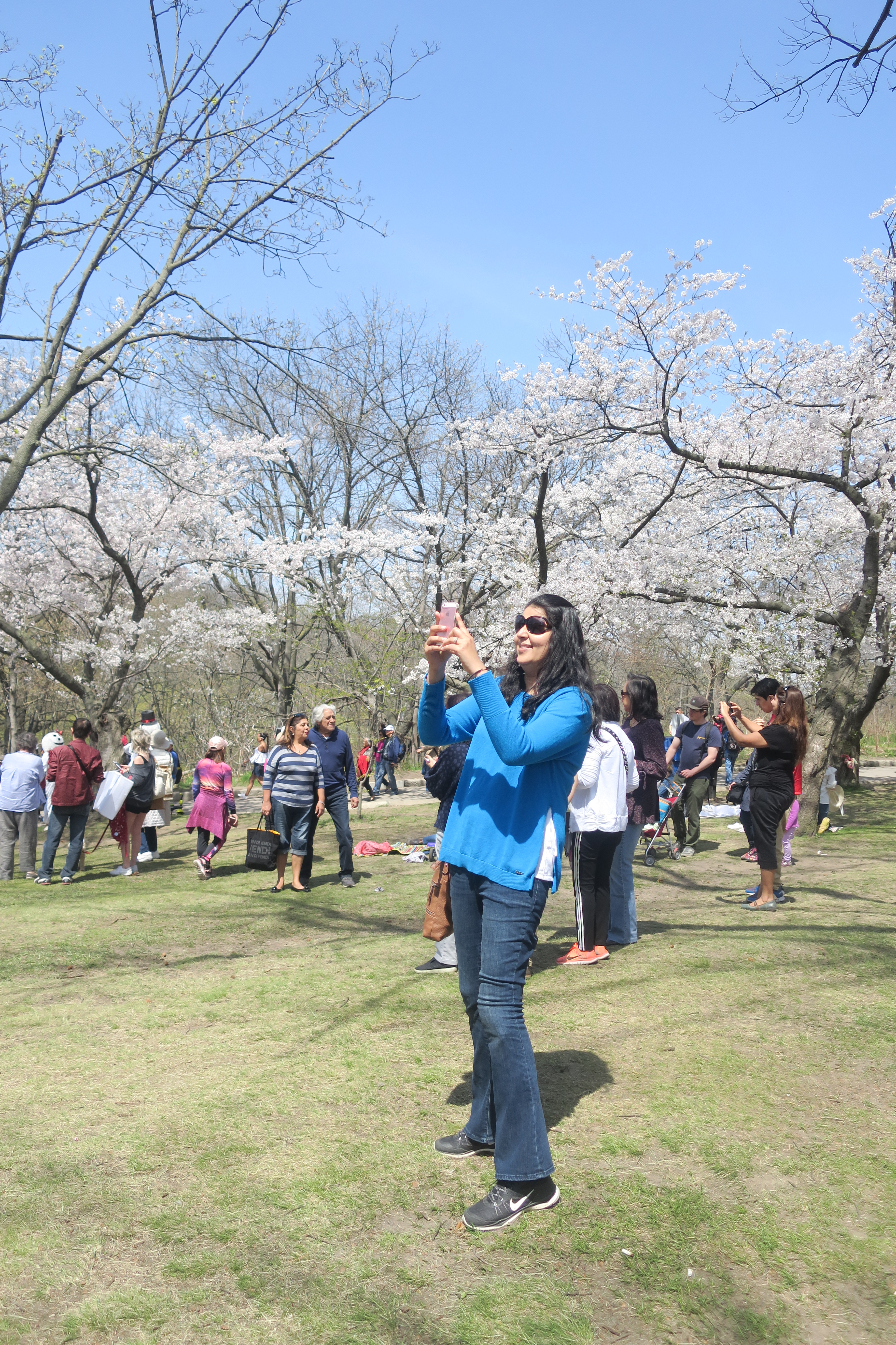 Sapna Sharma York University Research Chair in Global Change Biology, Biology Professor Sapna Sharma "We have observed that participants learning to become Wikipedians and experienced Wikipedians often have some difficulty finding Open Access photographs of scientists for their Wikipedia articles. The aim of this upload is to make a group of photos available in Yorkspace under a Creative Commons CC0 or Public Domain license"